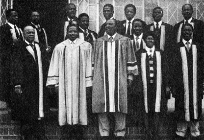 Diepmeadow Town Council, Greater Soweto. From David Grinker, Inside Soweto: Memoir of an Official 1960s-1980s. Johannesburg: Eastern Enterprises, 2014. (ISBN: 9781291865998)